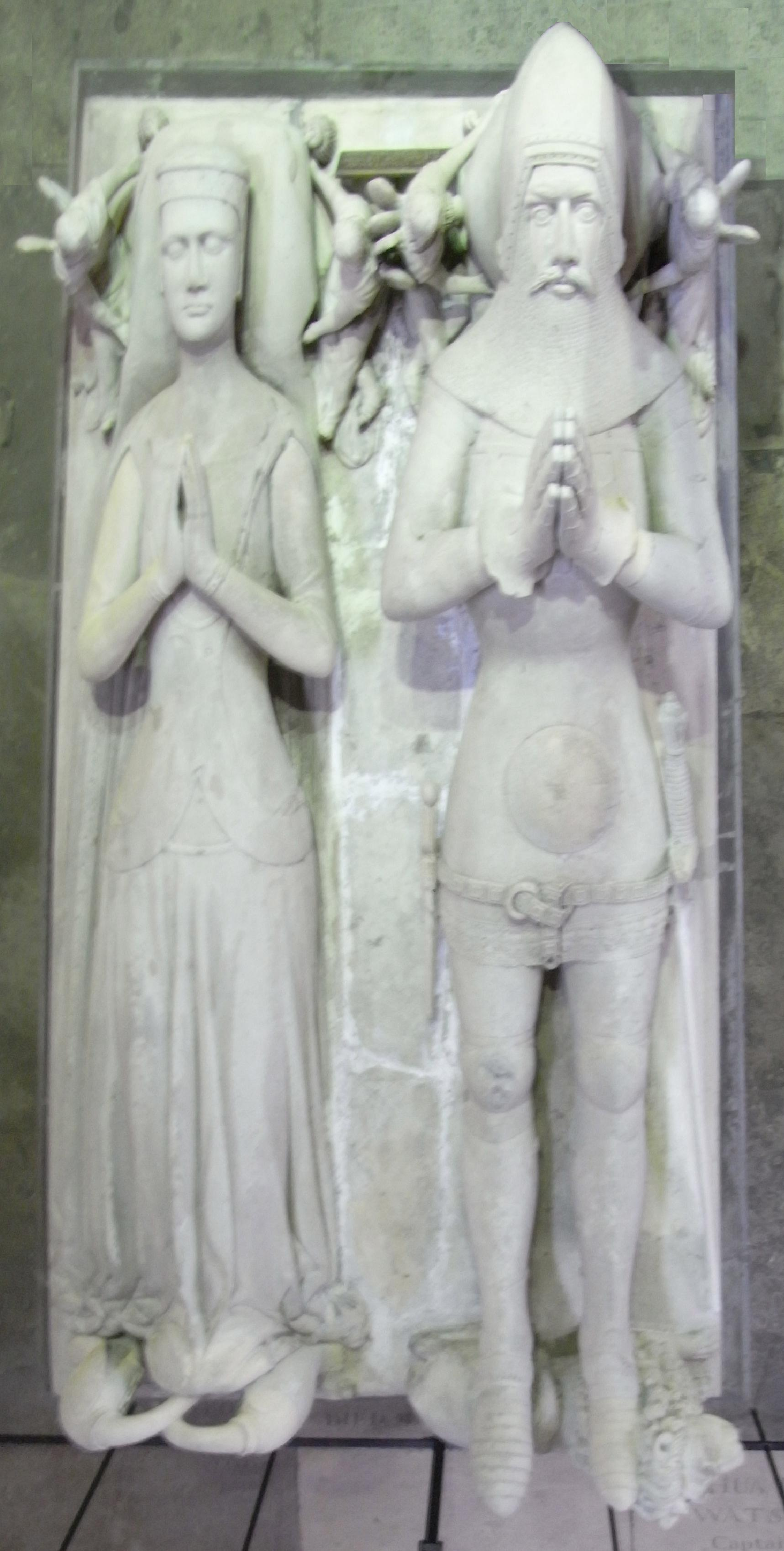 Effigies of Hugh Courtenay, 2nd Earl of Devon (1303-1377) and his wife Margaret de Bohun (d.1391), south transept, Exeter Cathedral, Devon